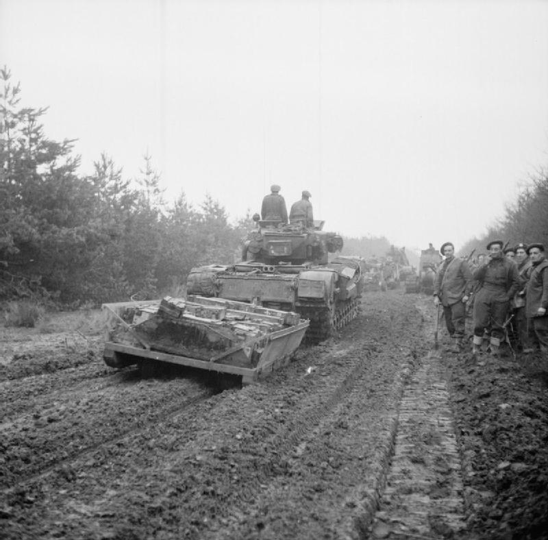 The British Army in North-west Europe 1944-45 Churchill tanks of 34th Tank Brigade towing ammunition sledges at the start of Operation 'Veritable', 8 February 1945.